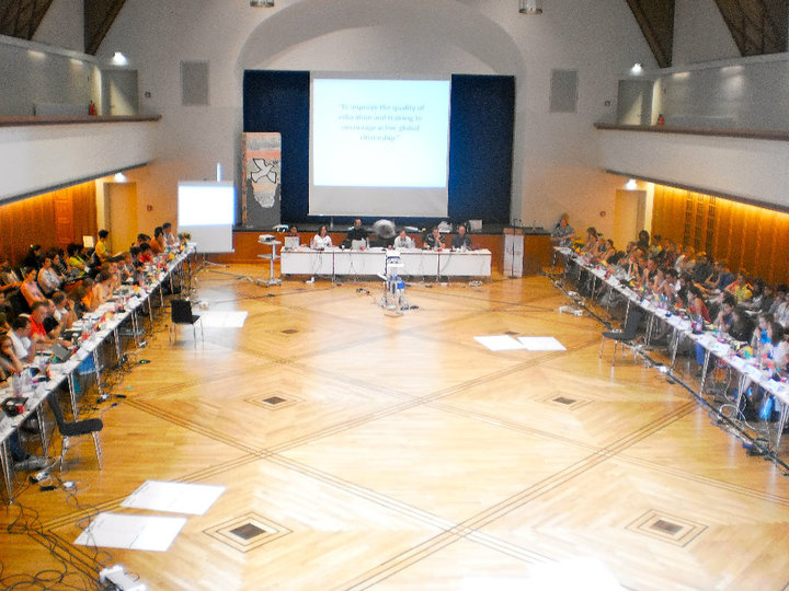 The CISV International Board of Trustees in session during AIM 2010 in Berlin, Germany